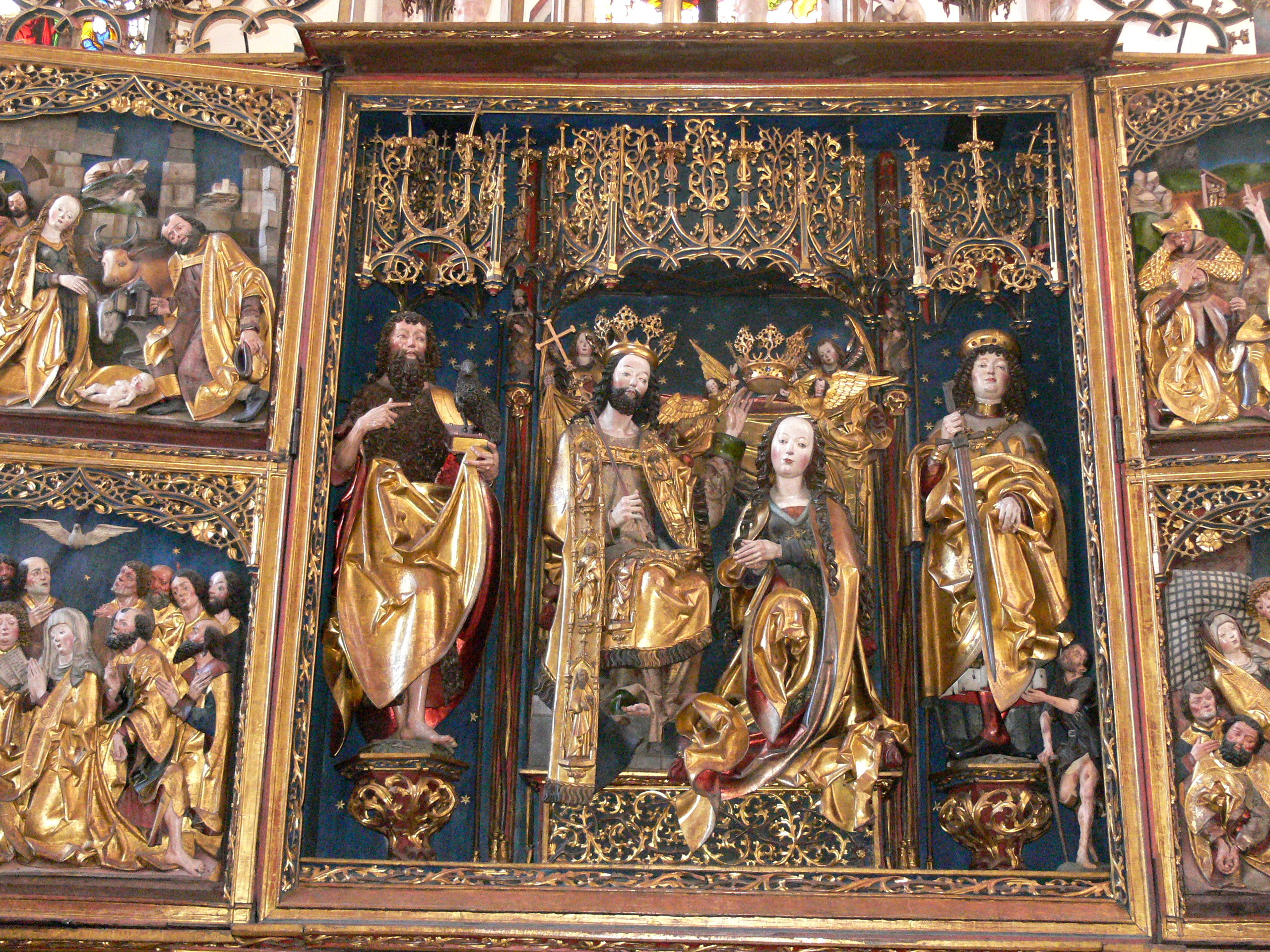 Schwabach - City church. High altar ( 1506 ): Middle shrine showing the coronation of Virgin Mary by a master under the influence of Veit Stoß.